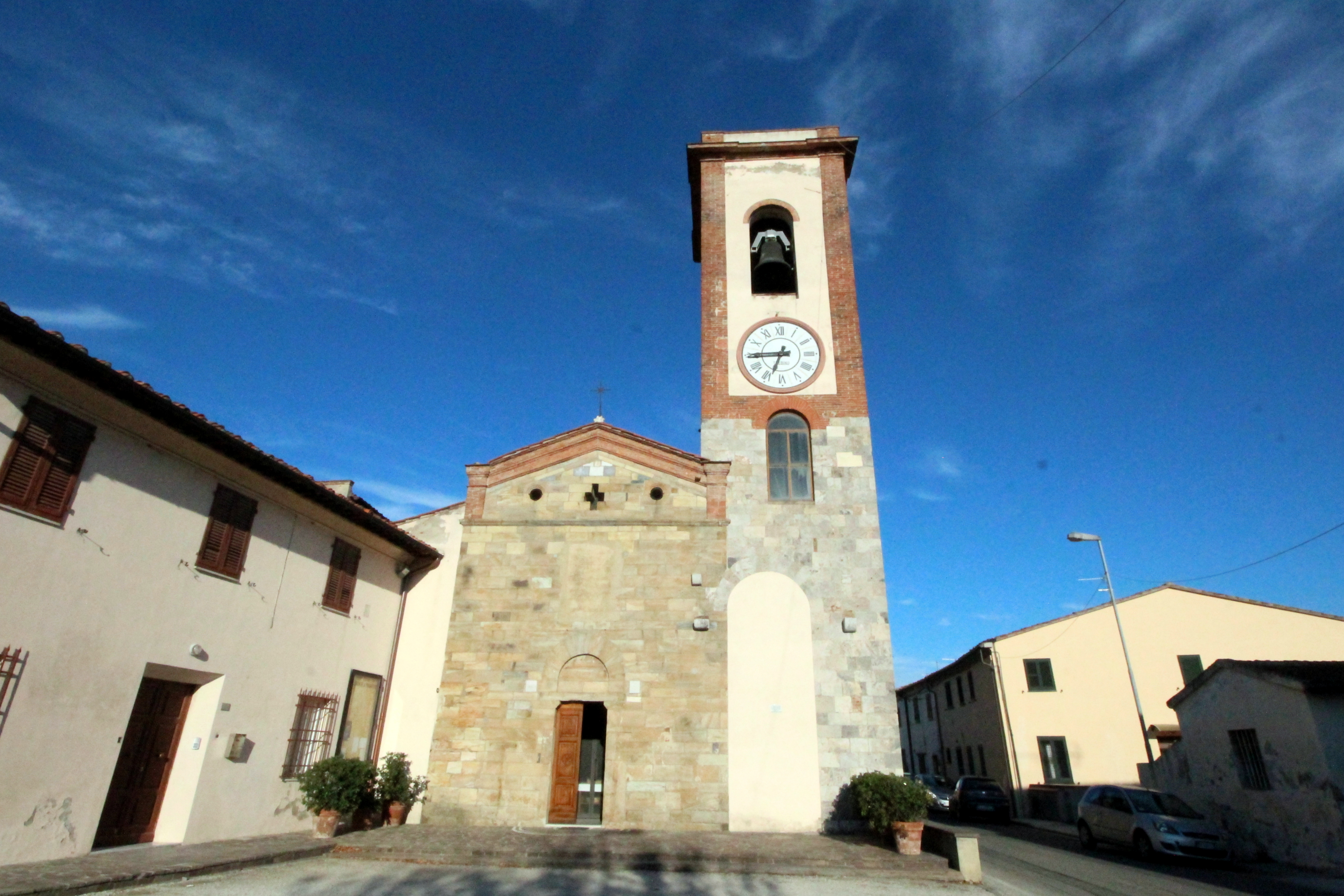 San Lorenzo, Church in San Lorenzo a Pagnatico, hamlet of Cascina, Province of Pisa, Tuscany, Italy